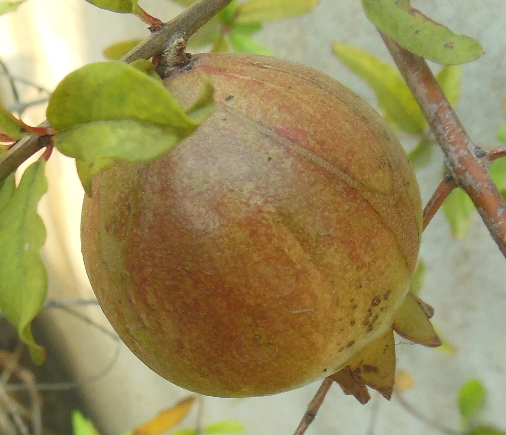 Unripened Pomegranate fruit on a small tree in India